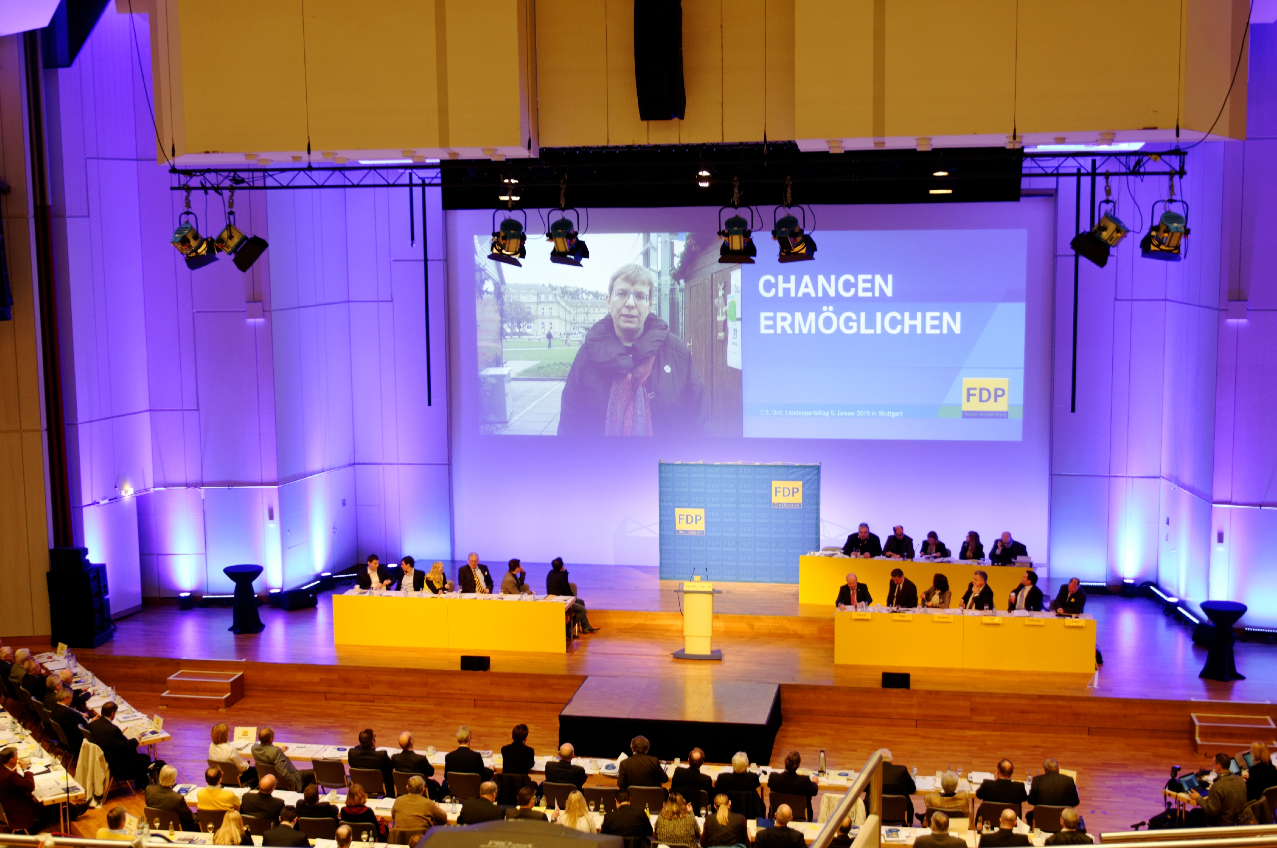 Series: 112th regular party convention of the FDP Baden-Württemberg in Stuttgart on January 5th, 2015